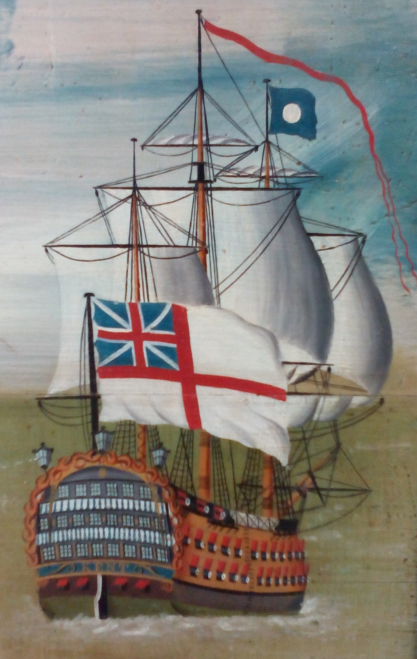 HMS Kent in a detail from 'The Fleet Offshore', 1780-1790, an anonymous piece of folk art now at Compton Verney. Further details at